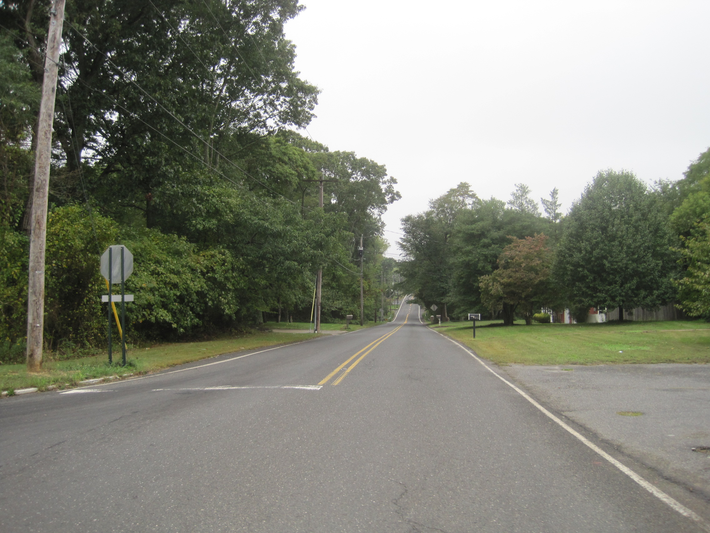 Photograph showing Matthews, New Jersey, an unincorporated community within Howell Township. Photo taken looking west along Hulses Corner Road at the intersection of Fort Plains Road.